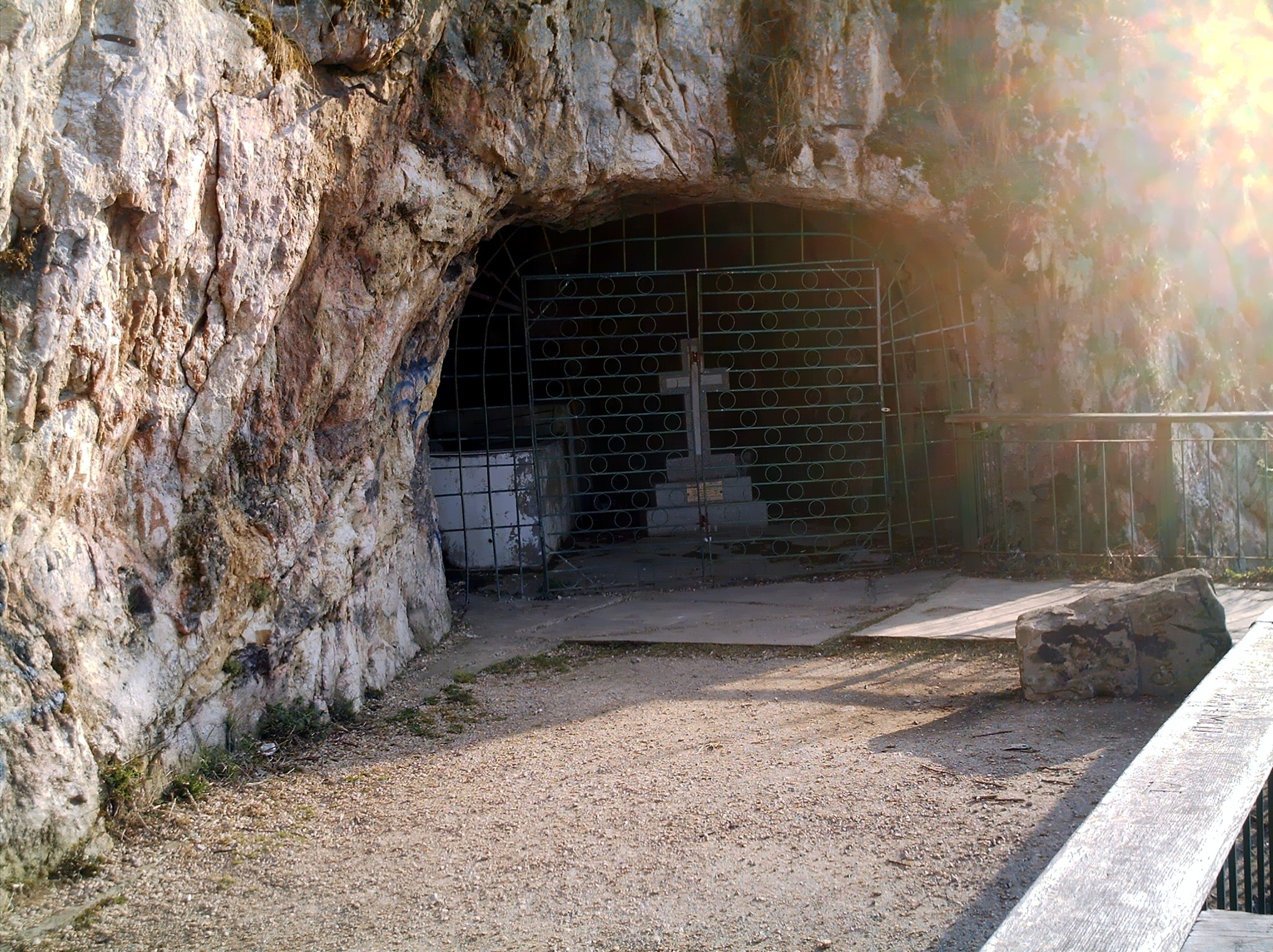 Monument from Tâmpa Mountain, right in Bethlen Cave, Braşov